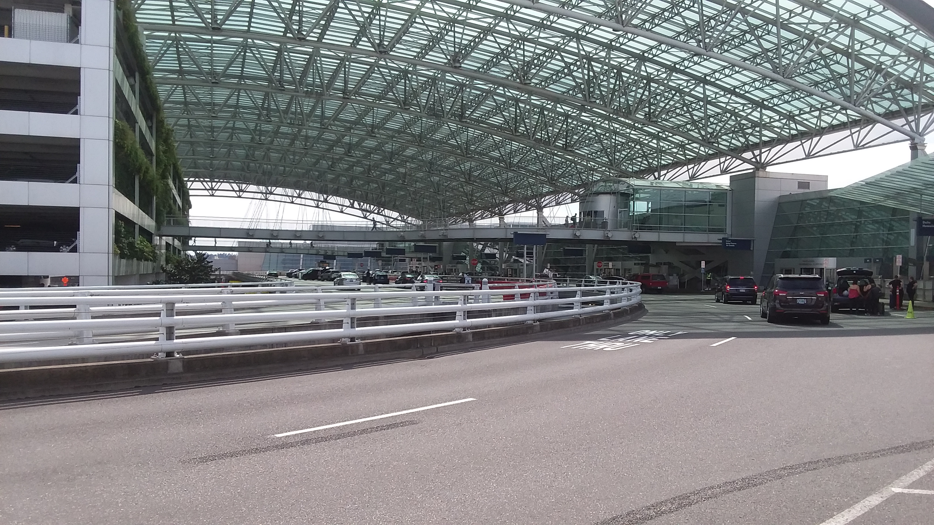 This is the Departure Area of the Portland International Airport where passengers are dropped off for their flight.